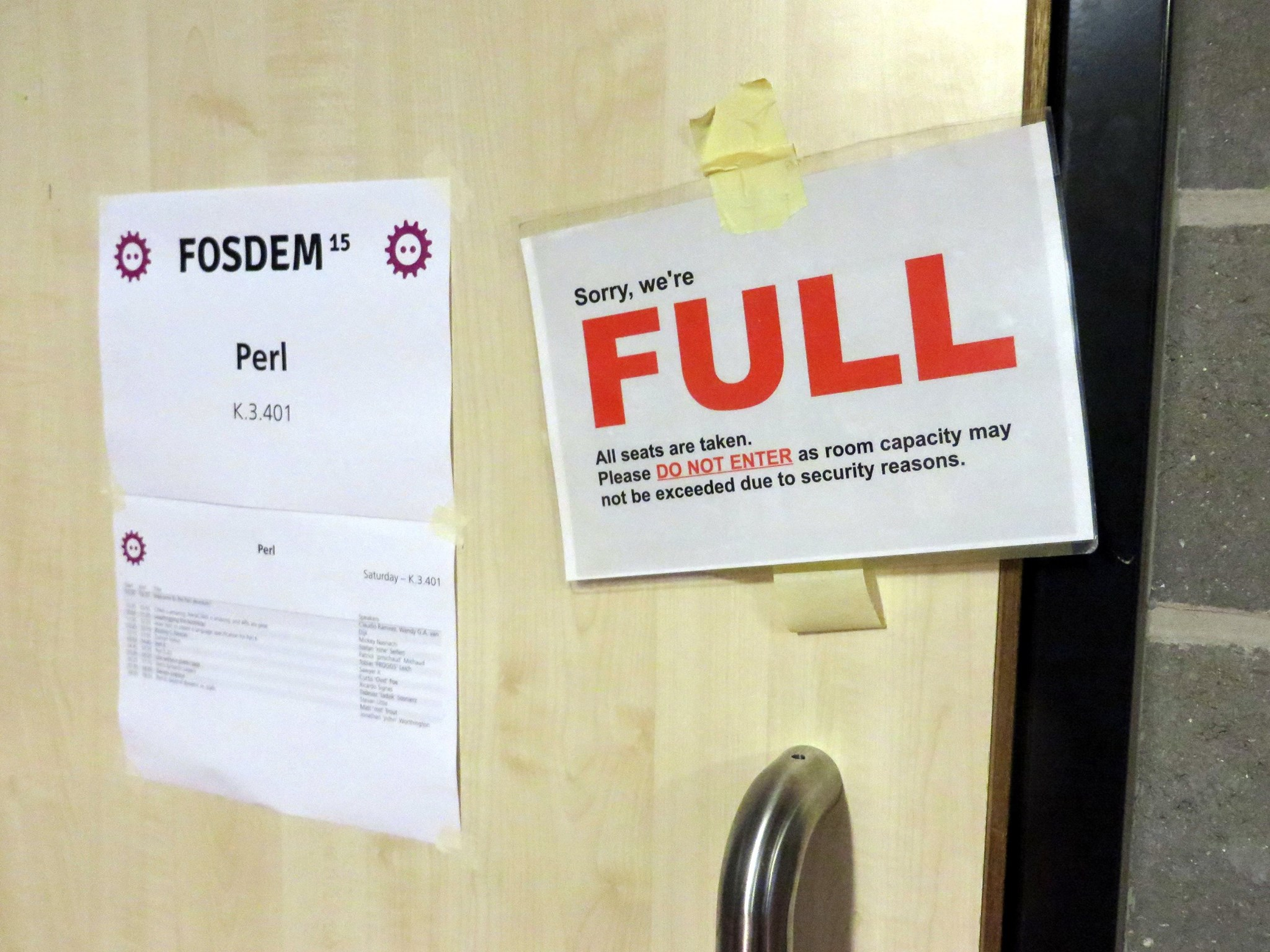 Sign that says FULL at FOSDEM in 2015.